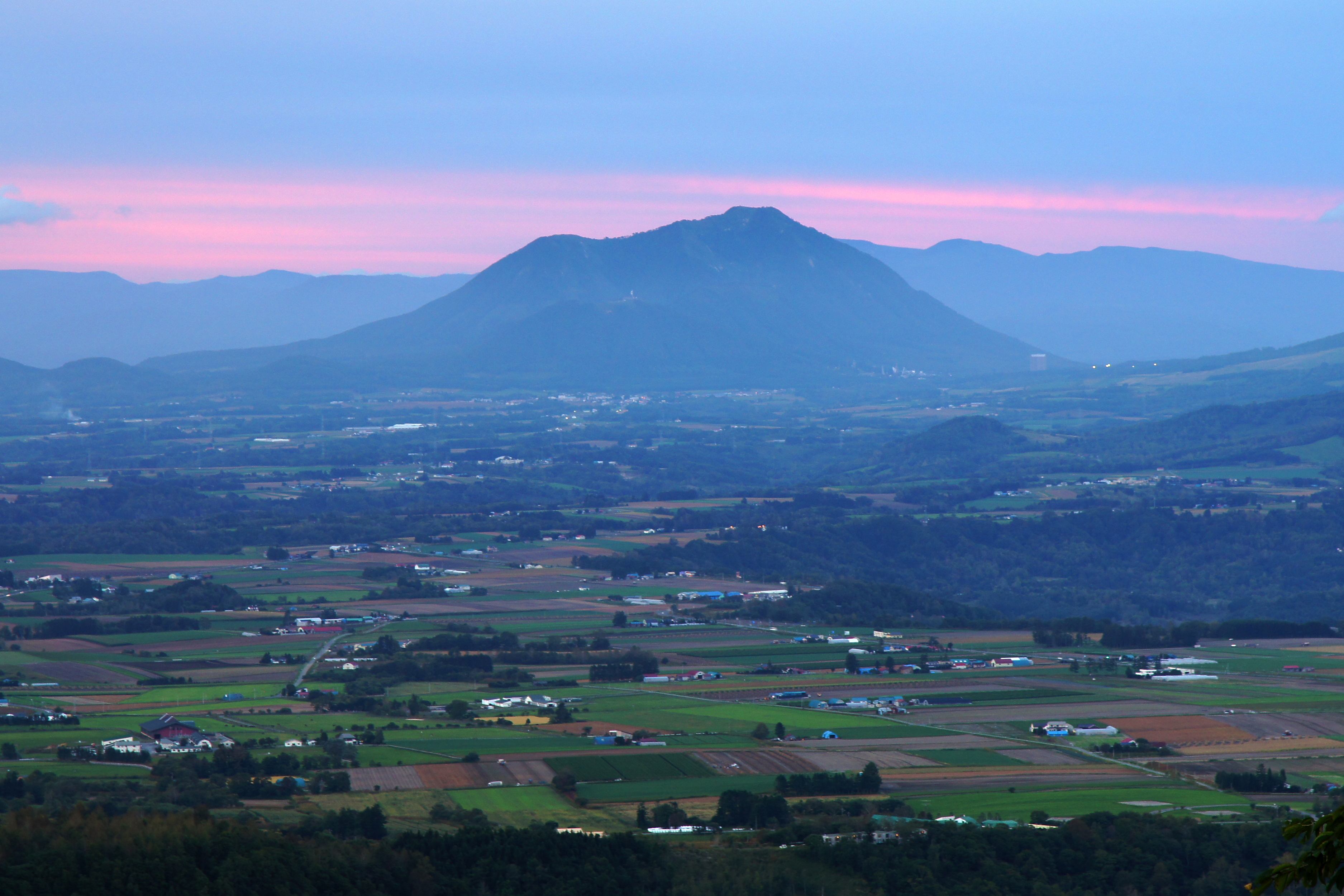 Mount Shiribetsu view from The Windsor Hotel Toya Resort & Spa in Toyako, Hokkaido prefecture, Japan.